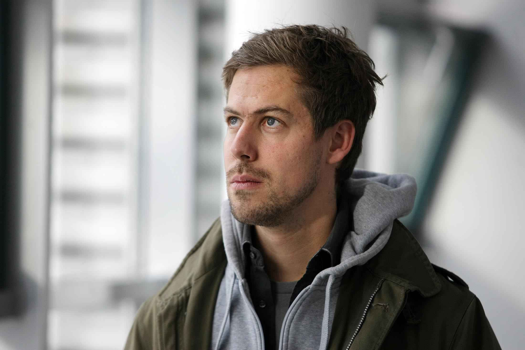 Portrait